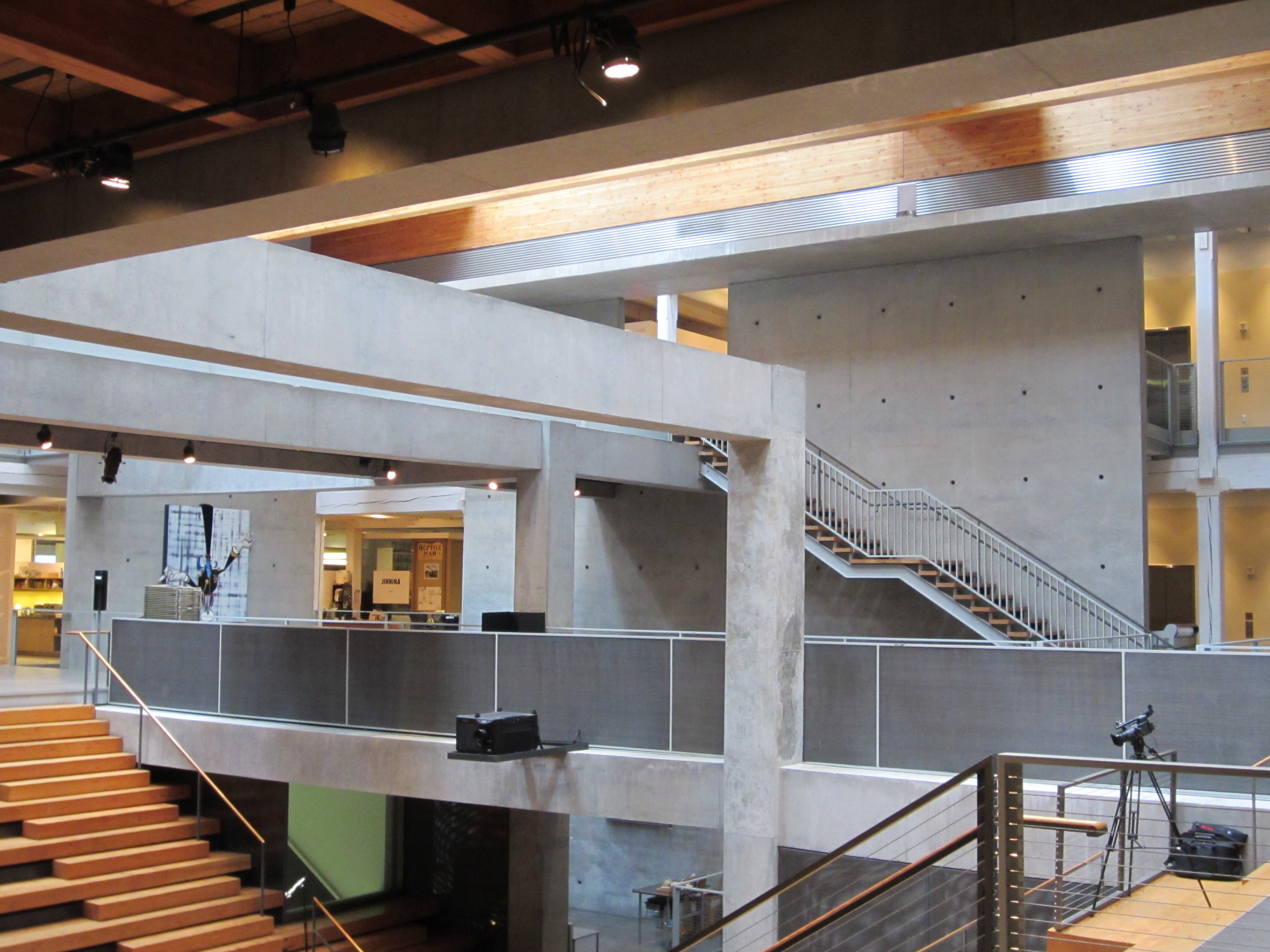 Wieden+Kennedy in Portland, Oregon in January 2012